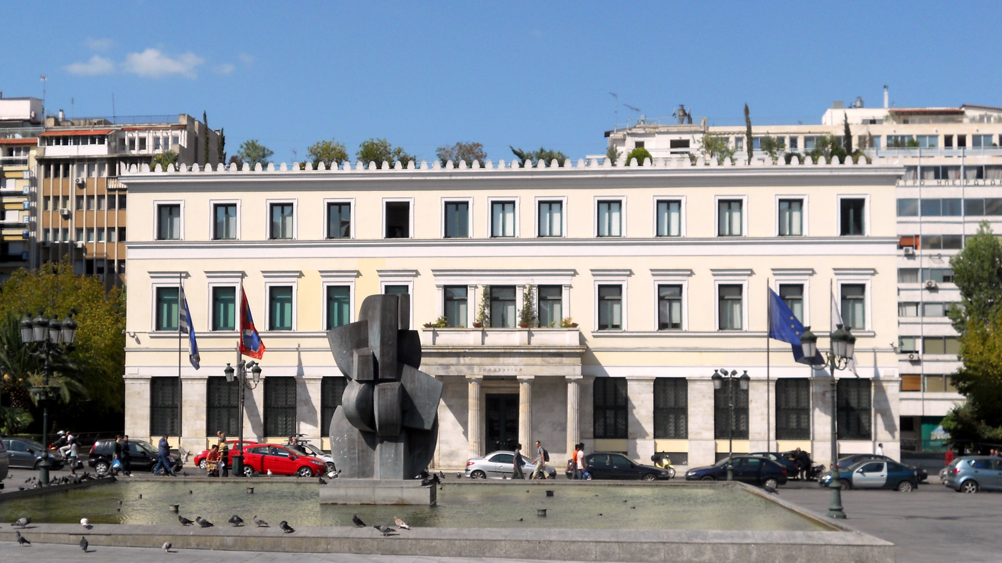 Athens City Hall, Greece.